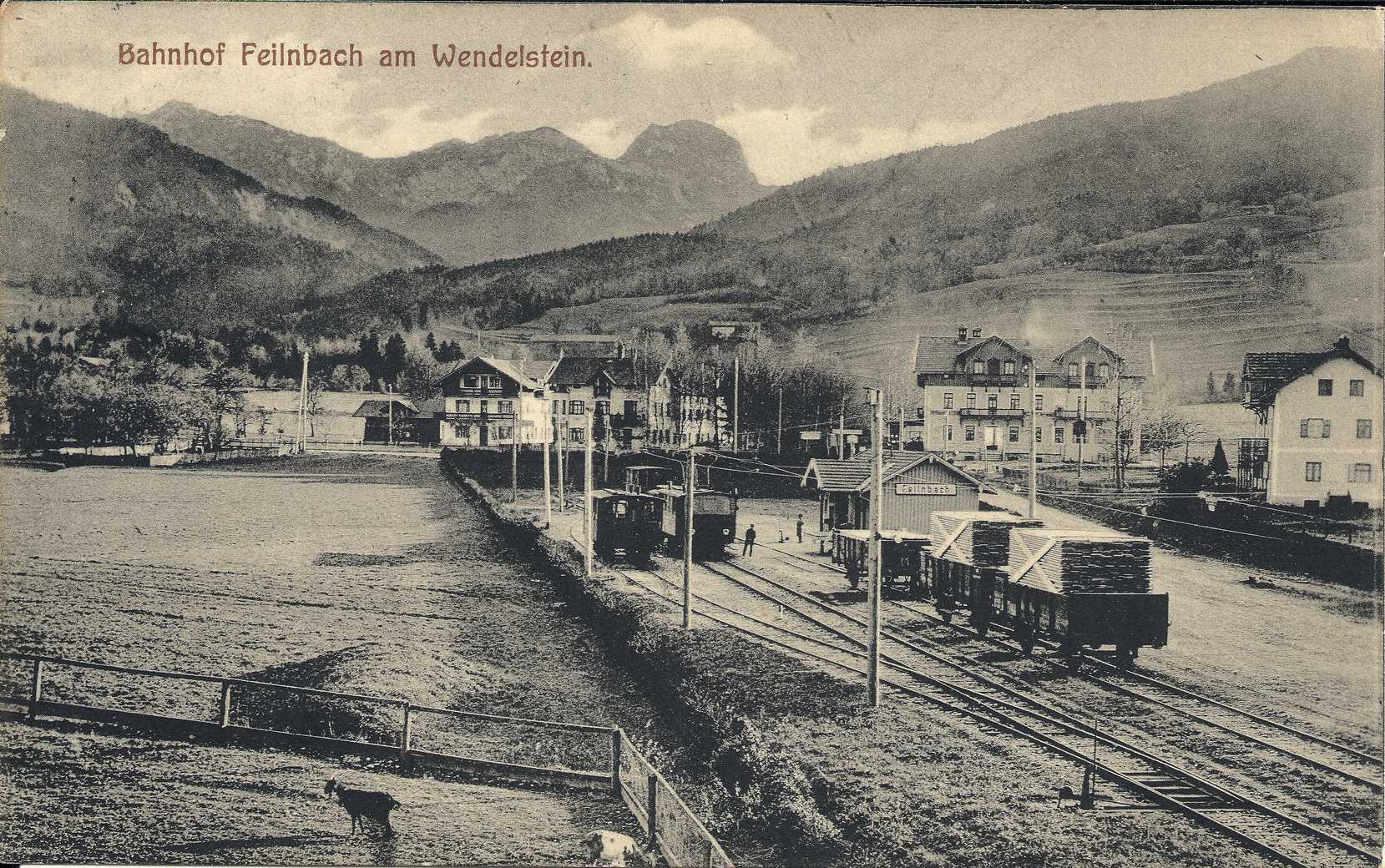 Feilnbach railway station of the local train Bad Aibling - Feilenbach before 1917